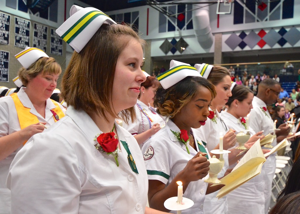 Practical Nursing graduate Heather Noel Comings (foreground) at Germanna Community College's Nursing and Health Technologies Convocation at the Anderson Center at the University of Mary Washington in Fredericksburg, Va. on on Thursday afternoon, May 12, 2016. (Photo by Robert A. Martin)